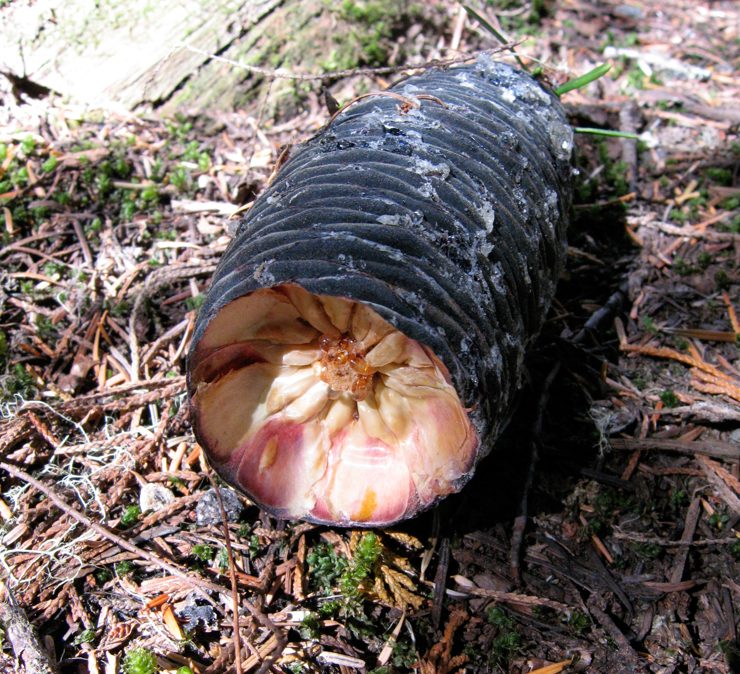 Abies amabilis cone, with top broken to show seeds. White River Campground, Mount Rainier National Park, Washington, USA.